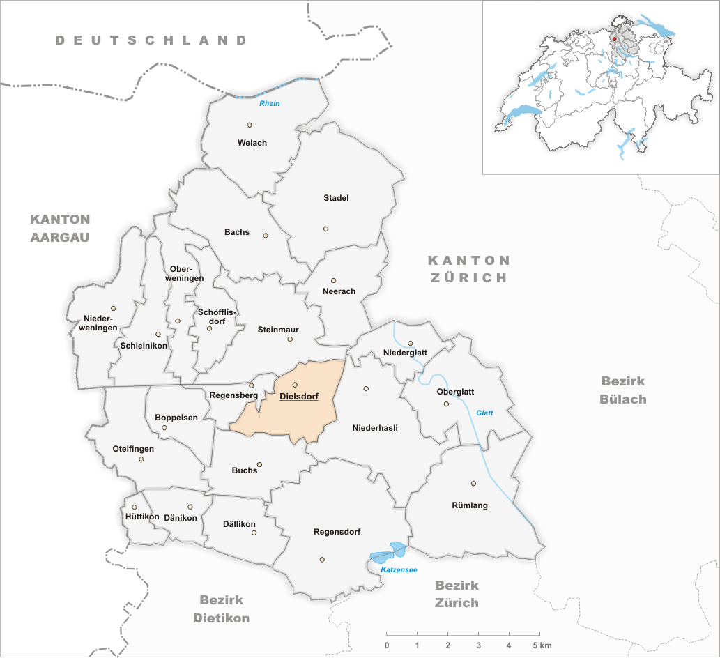 Municipality Dielsdorf